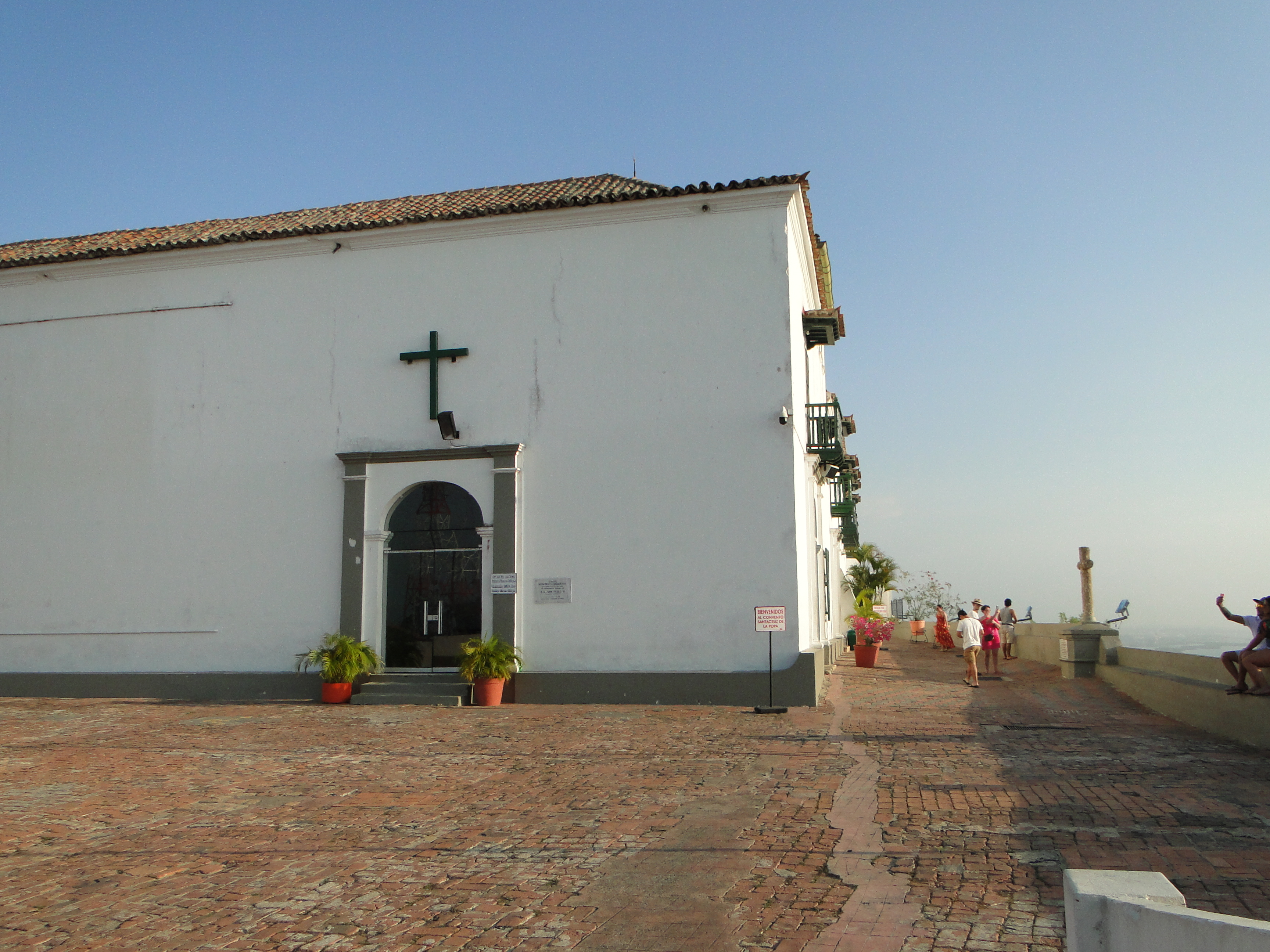 Monastery de la Popa and view on the city of Cartagena